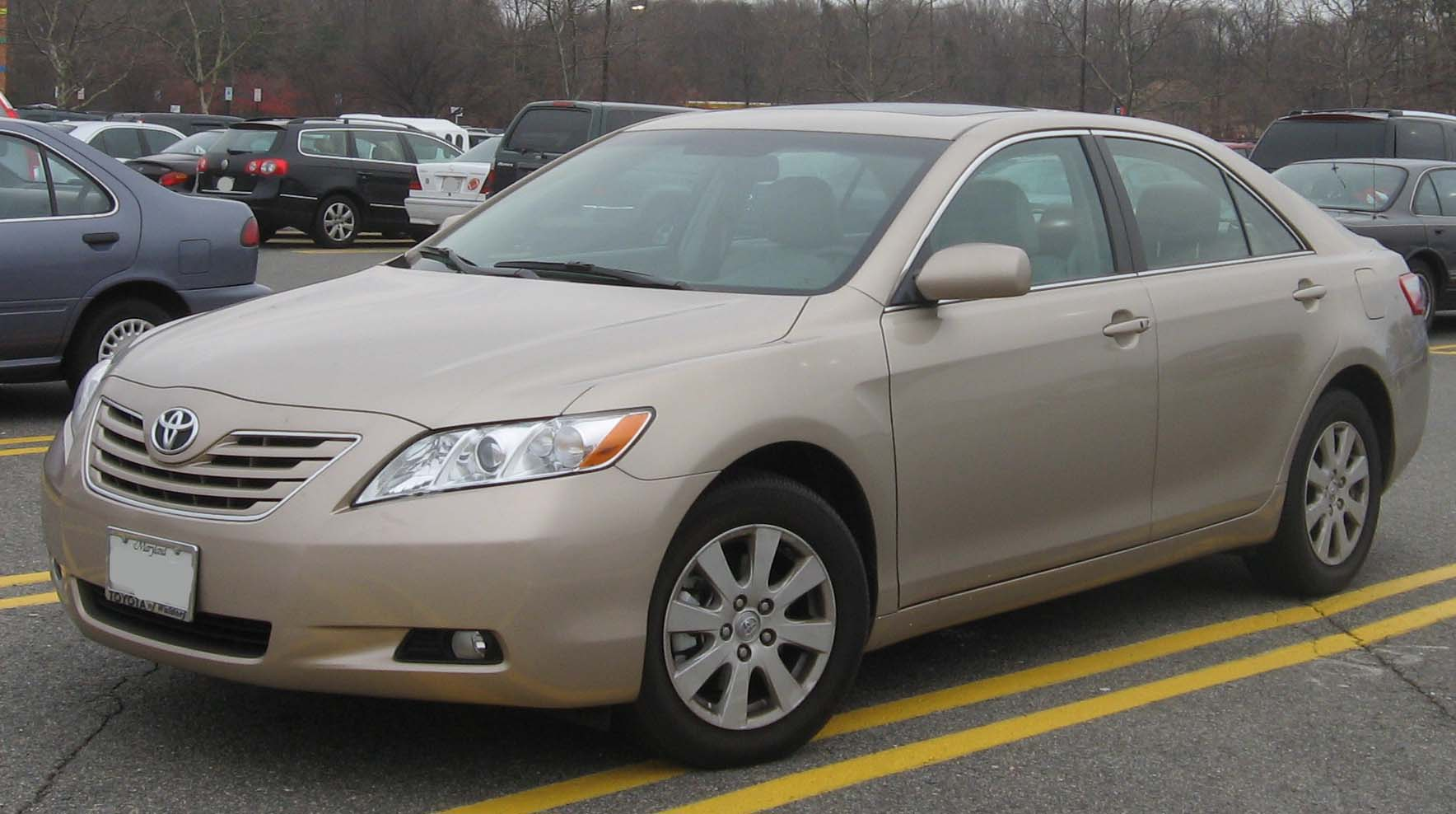 2007-2008 Toyota Camry photographed in USA.